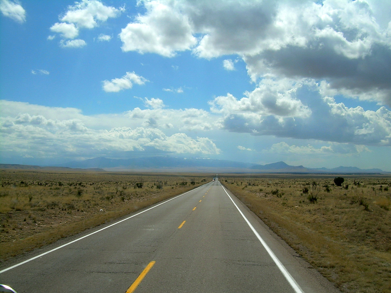 A photo of US Route 54 in New Mexico, somewhere between Vaughn and Carrizozo.